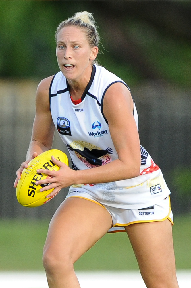 Marijana Rajcic in March 2018